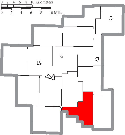 Map of the municipal and township boundaries of Noble County, Ohio, United States, as of the 2000 census, with the location of Jefferson Township highlighted. Township borders are shown only in unincorporated areas in order to differentiate incorporated and unincorporated areas more clearly.